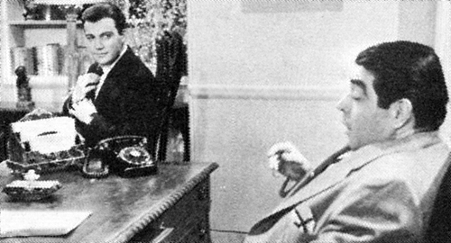 Promotional photo for the aborted 1959 CBS television series Nero Wolfe, starring (from left) William Shatner and Kurt Kasznar The photograph appears on the second page of a photo feature titled "Bill Shatner's Trek to the Top." Photo caption reads as follows: '59. Nero Wolfe. Kurt Kasznar. Bill was one of the most sought-after young actors on TV. CBS." Original printed image in the magazine measures approximately 2.125 x 1.25 inches.